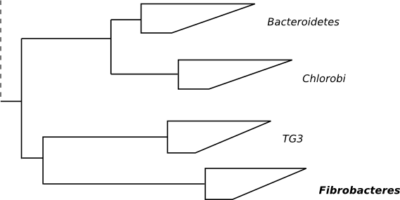 Maximum Likelihood Tree based on the 16S rRNA gene, depicting the interrelationship between the phyla Fibrobacteres, TG3, Bacteroidetes and Chlorobi.